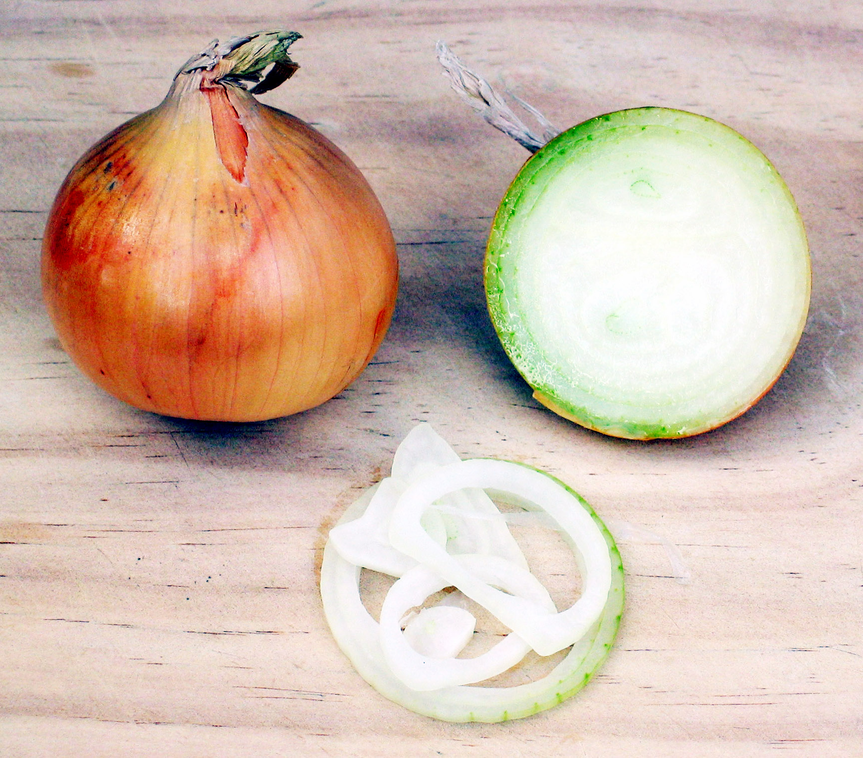 This is one whole and one cut onion (showing onion rings).